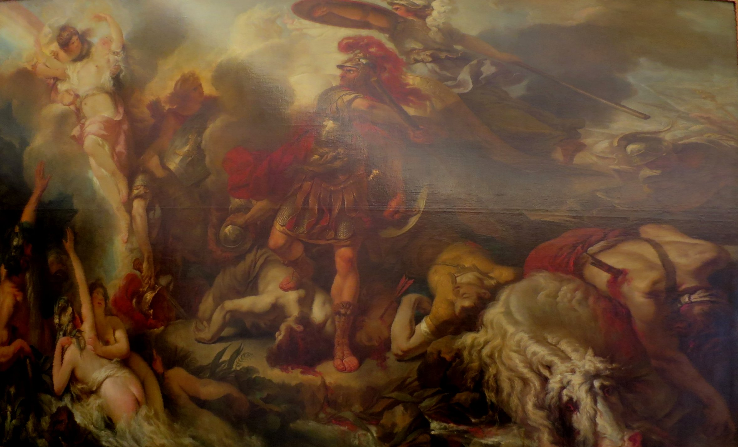 Venus Wounded by Diomedes by Gabriel-François Doyen, The Hermitage